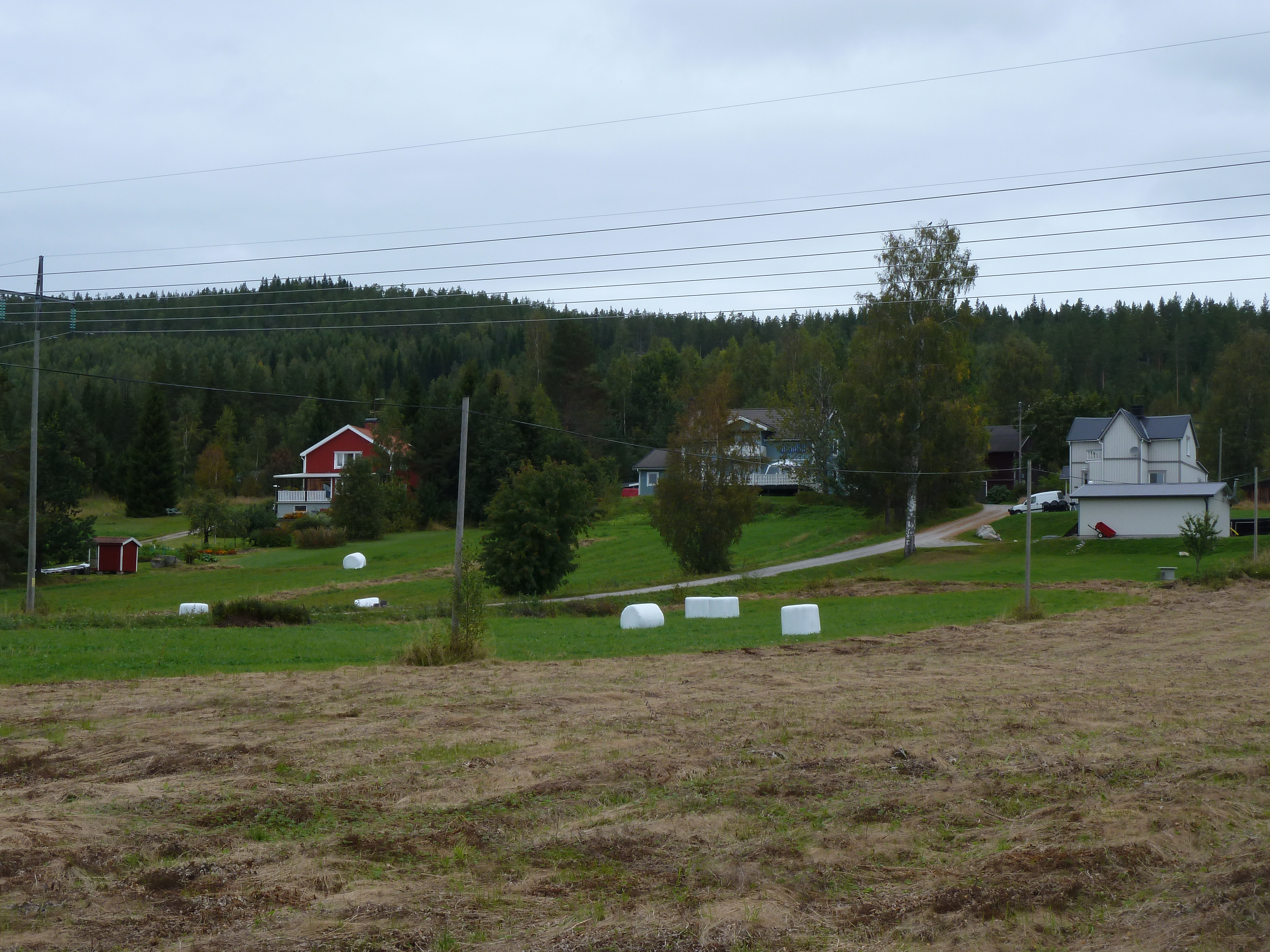 Västeralnö, Örnsköldsvik, Sweden